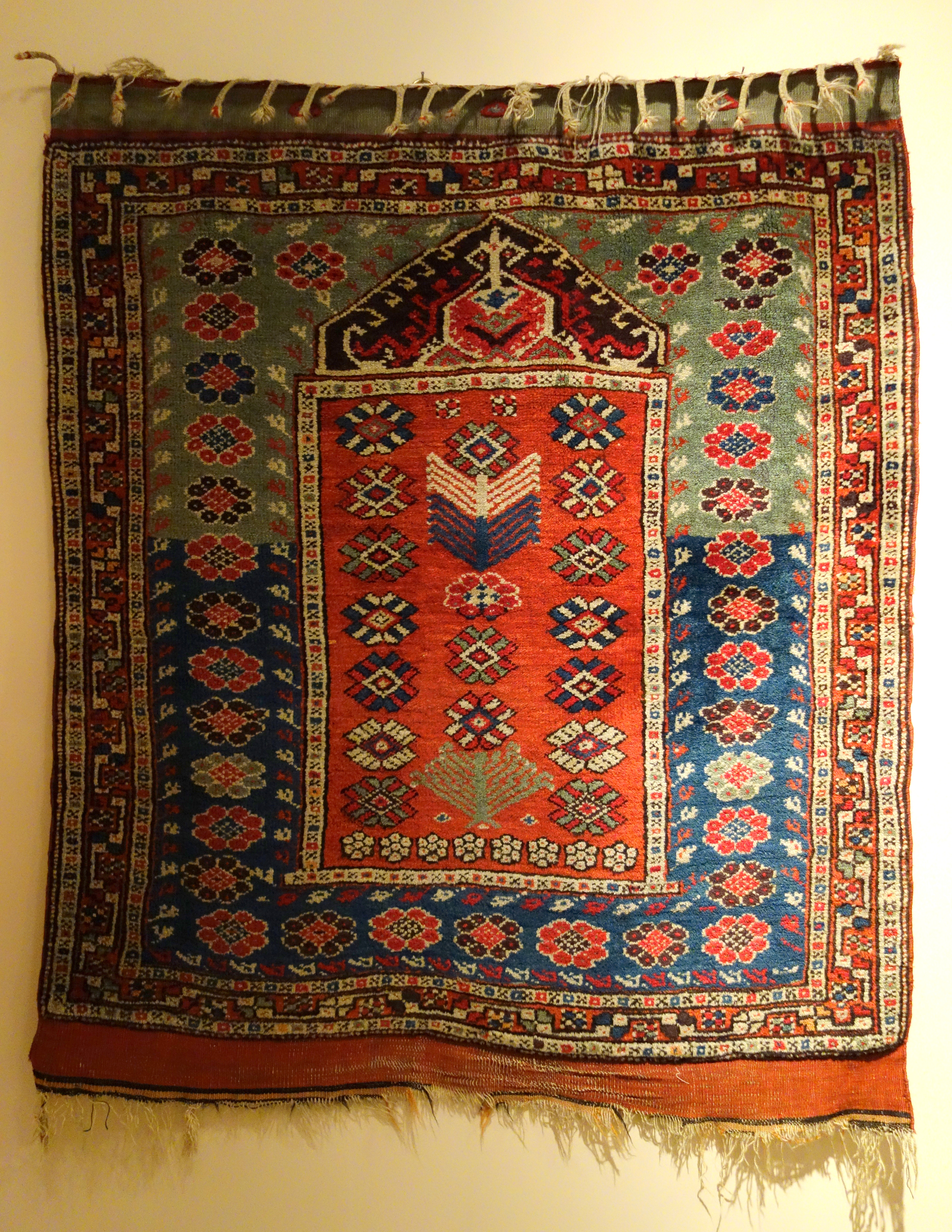 Exhibit in the Huntington Museum of Art, Huntington, West Virginia, USA. This artwork is in the public domain because the artist died more than 70 years ago.